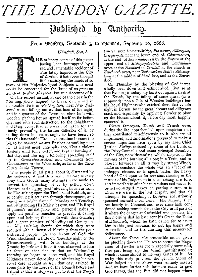 The London Gazette, front page from Monday 3 - 10 September 1666, reporting on the Fire of London. A reprint, the original can be found at the official London Gazette site.